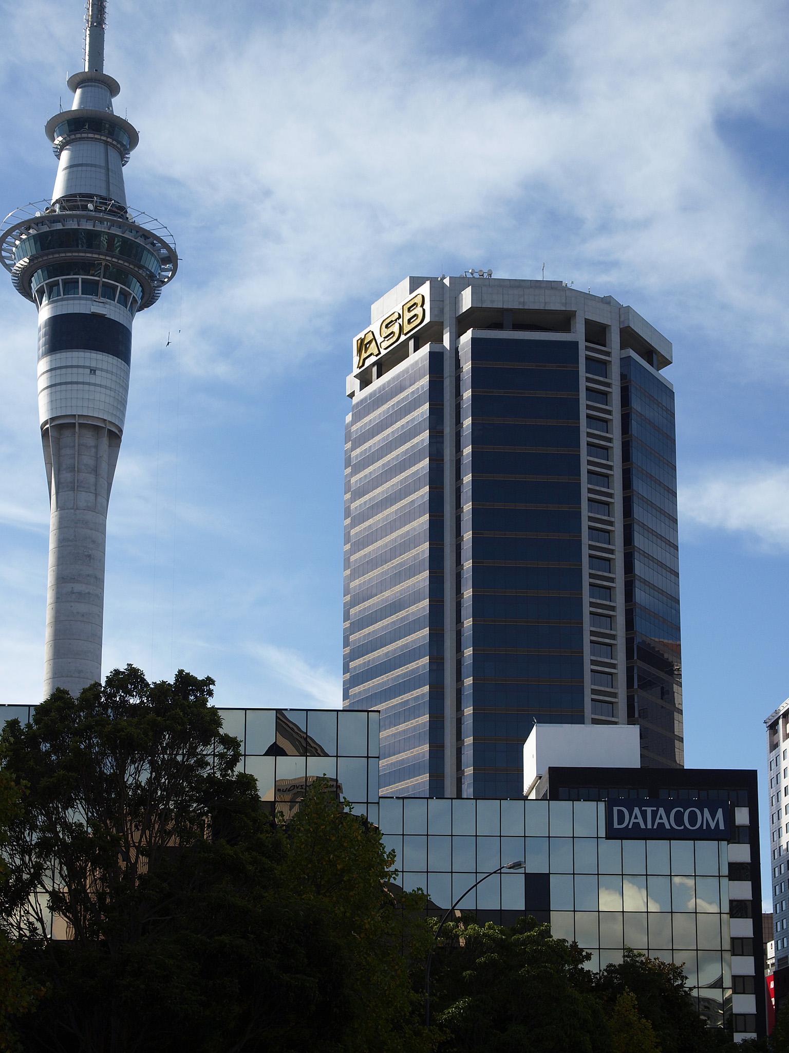 ASB Bank Headquarter Building in Auckland